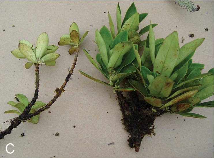 Coprosma meyeri W. L. Wagner & Lorence, branchlets with male flowers (Hiva Oa, Perlman 18337, photos D. Lorence)